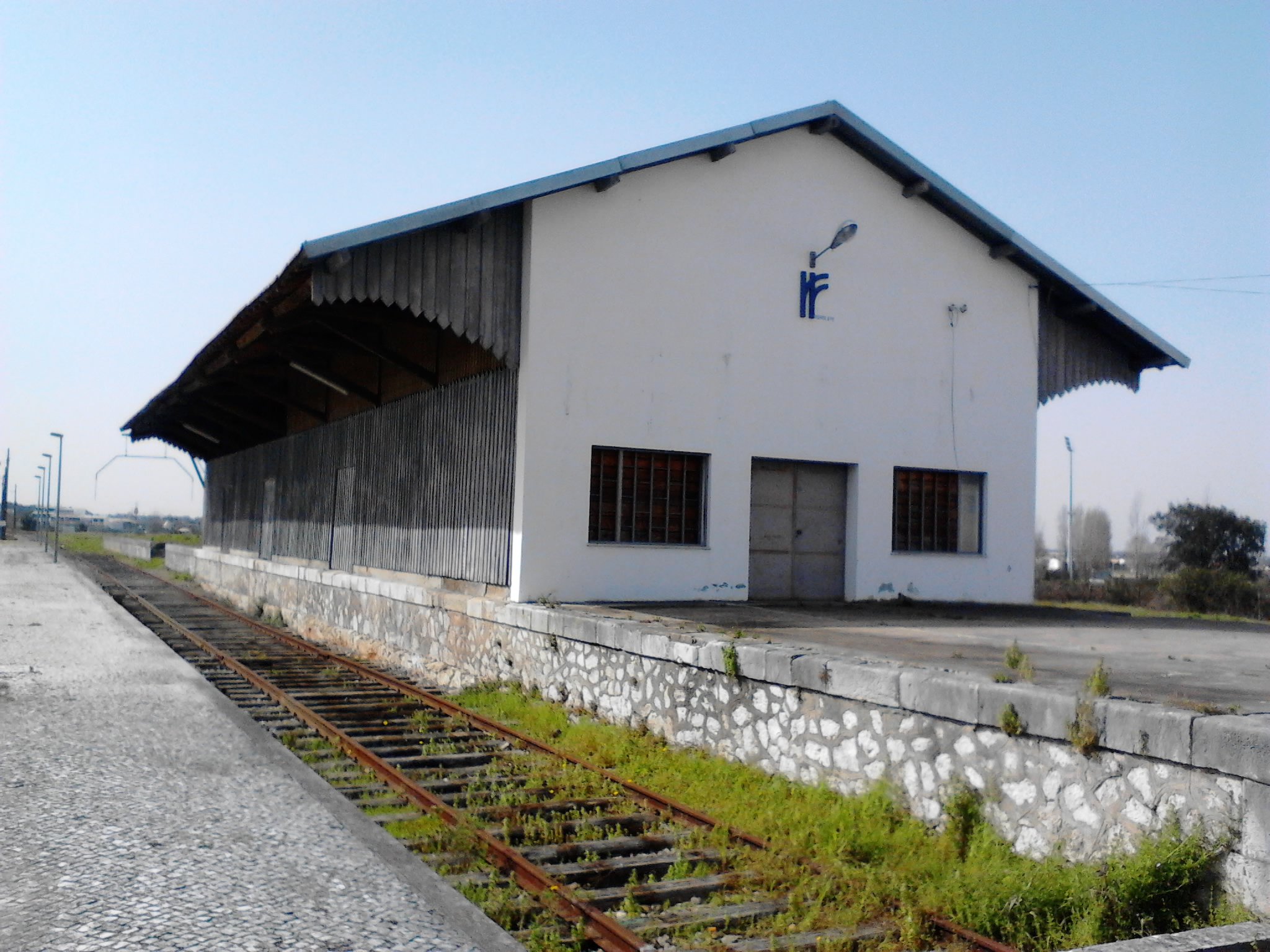 View of the REFER warehouse in Marinha Grande train station